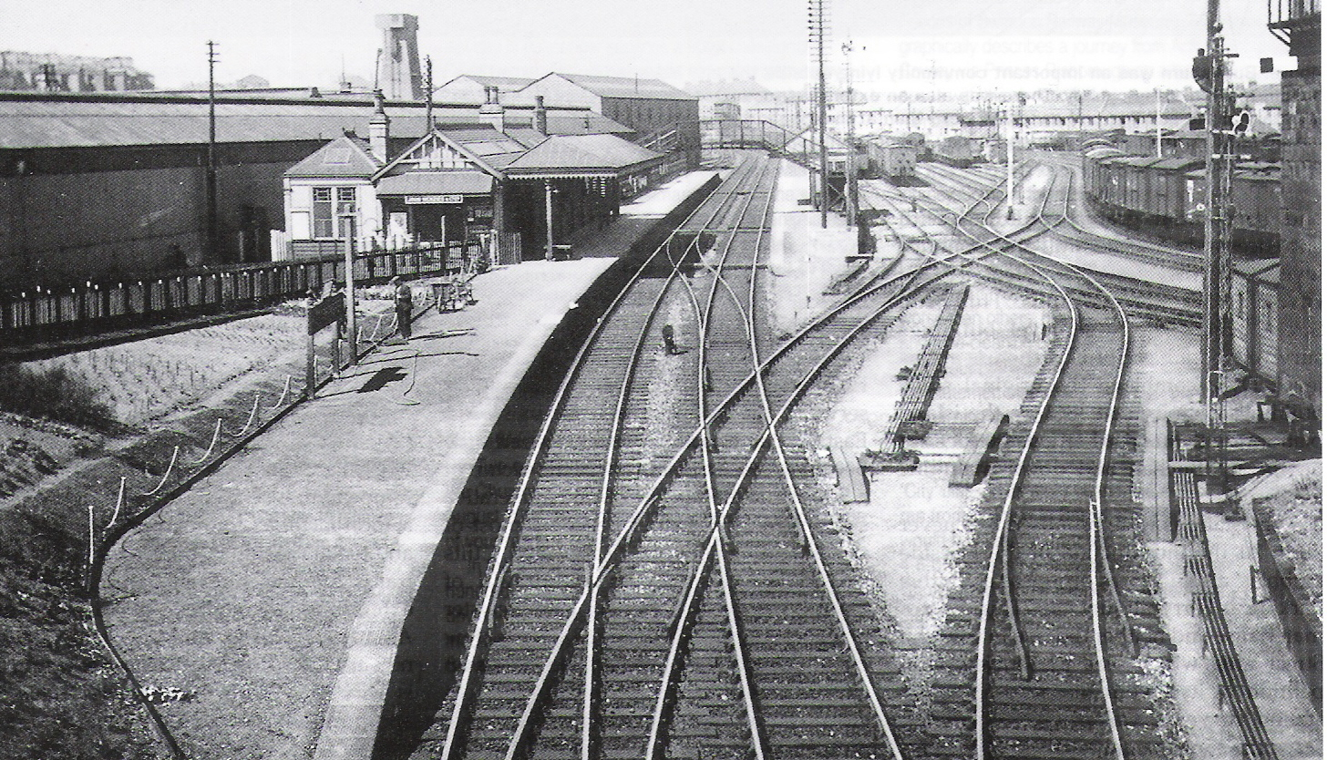 Private photograph. No copyright.